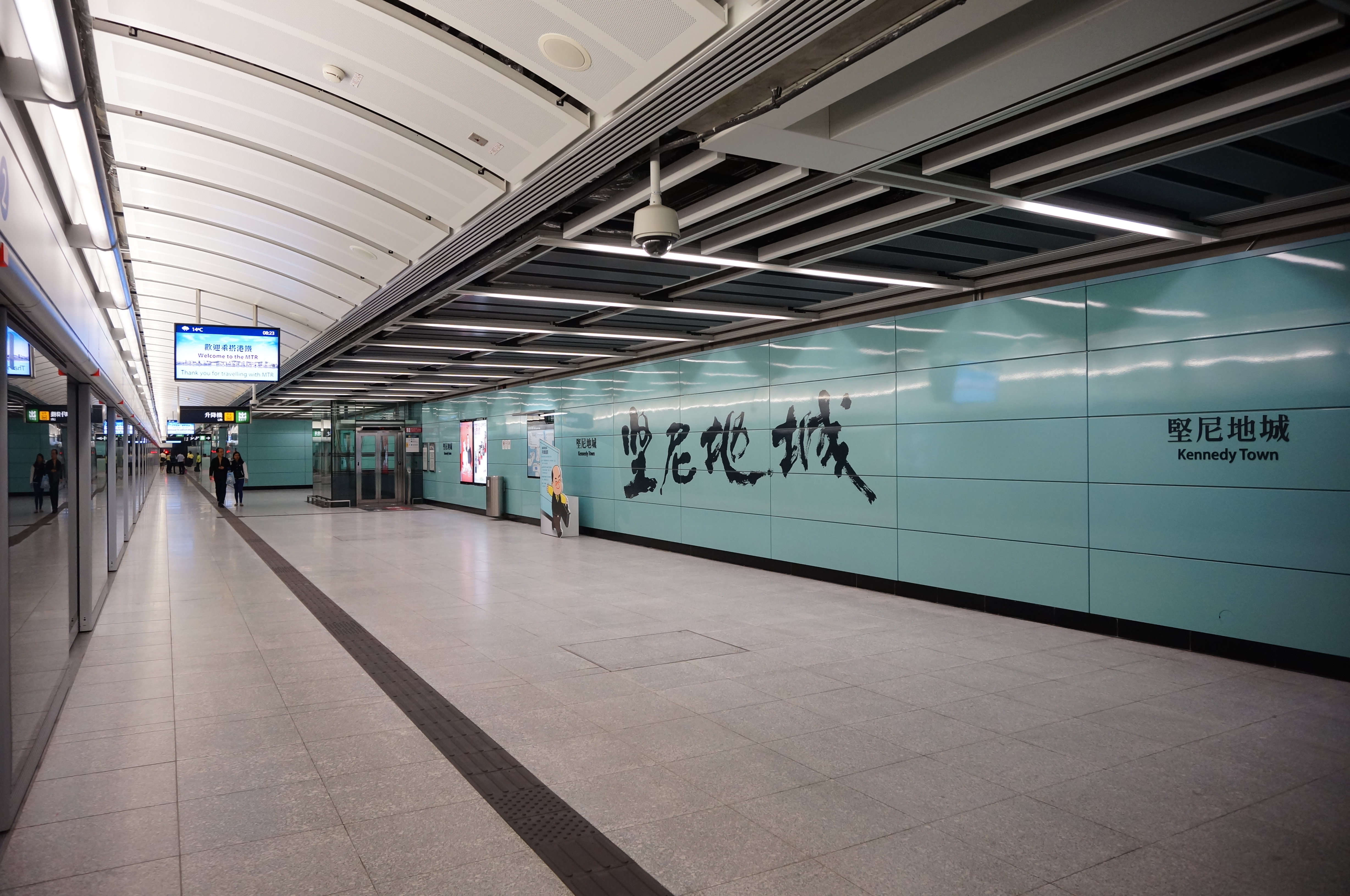 MTR Kennedy Town Station platform